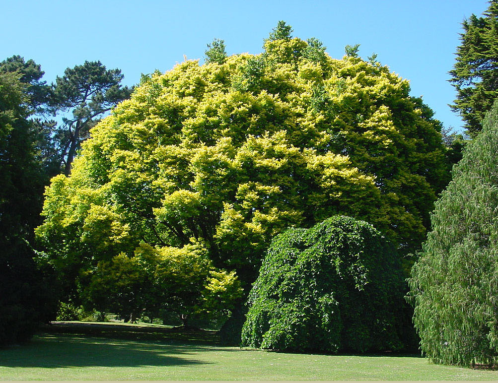 The Field Elm 'Louis van Houtte' in the botanic garden in Christchurch, New Zealand.